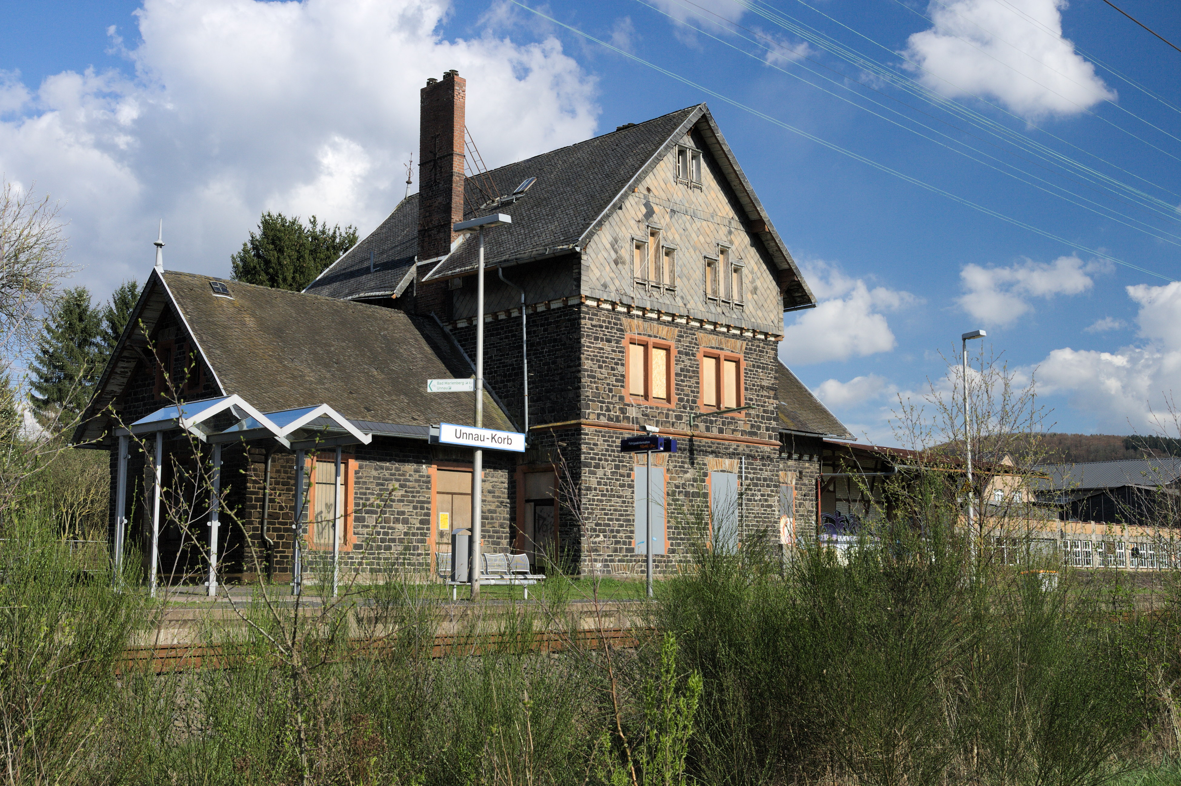 Former railway station (now only train stop) at the Oberwesterwaldbahn (Altenkirchen-Limburg (Lahn)). Cultural heritage monument. Location: Bahnhofstraße 10, Unnau-Korb, Westerwald, Germany. Erected about 1885.